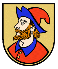 Coat of arms of Heidenheim an der Brenz.